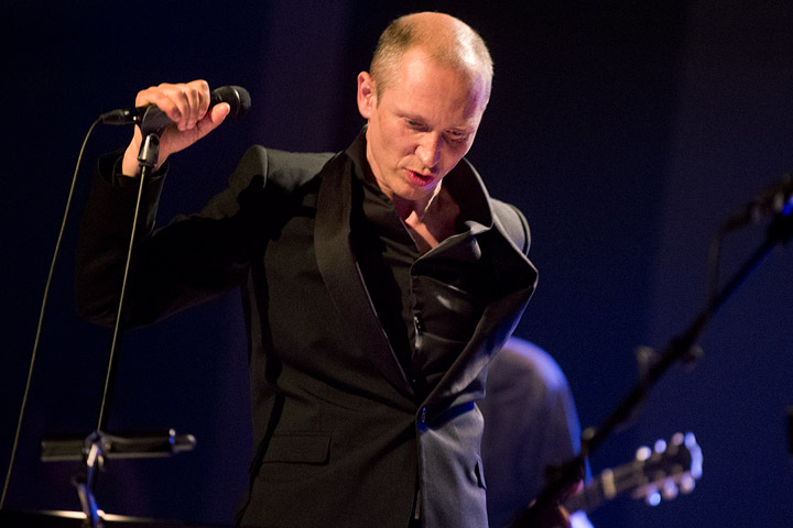 Helmut Lotti